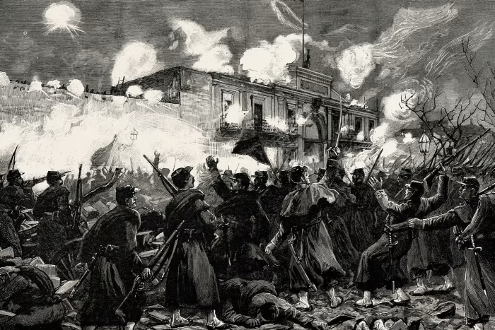 Scenes at Buenos Ayres during the Revolution in Argentina: The fighting outside the arsenal and barracks, Plaza Lavalle, the first buildings seized by the insurgents.